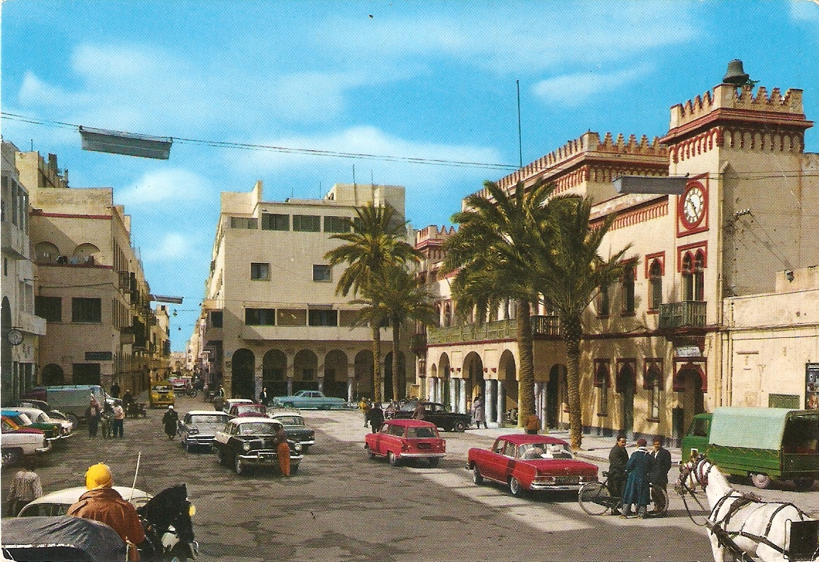 A postcard of the Libyan city of Benghazi featuring "Maidan Al Baladiya".